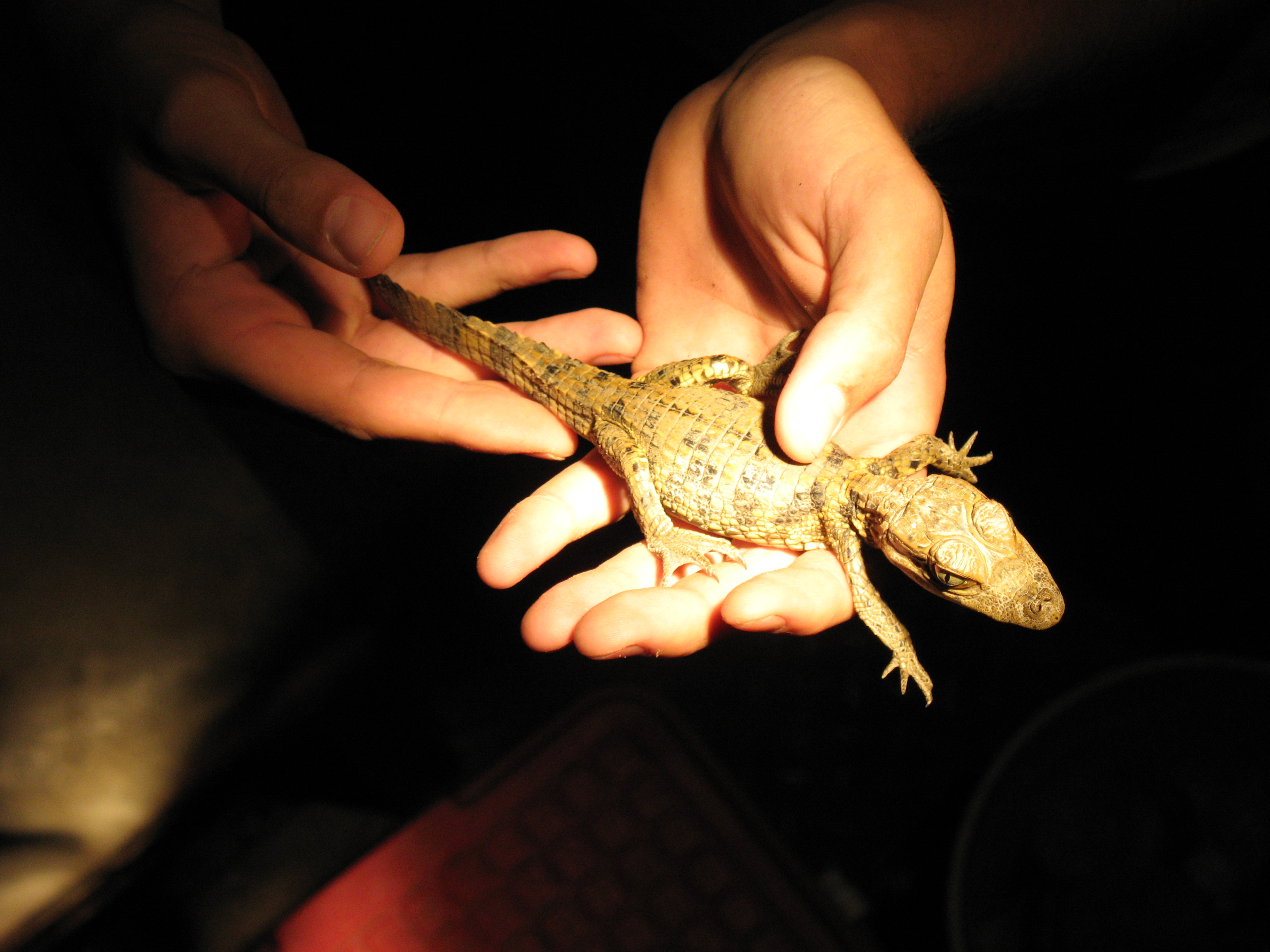 Baby Caiman, Llanos Plain, Venezuela